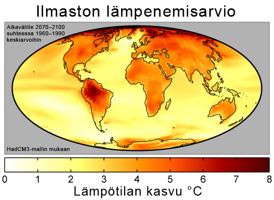 A Finnish version of a figure showing the predicted distribution of temperature change due to global warming from Hadley Centre HadCM3 climate model.